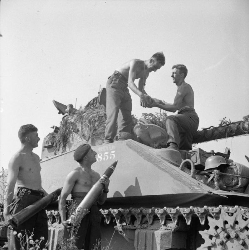 A Sherman Firefly crew of 1st Northamptonshire Yeomanry load ammunition for the 17-pounder gun into their vehicle before the start of Operation 'Totalise'.